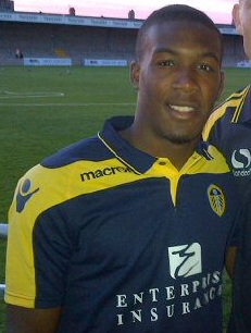 the footballer Dominic Poleon